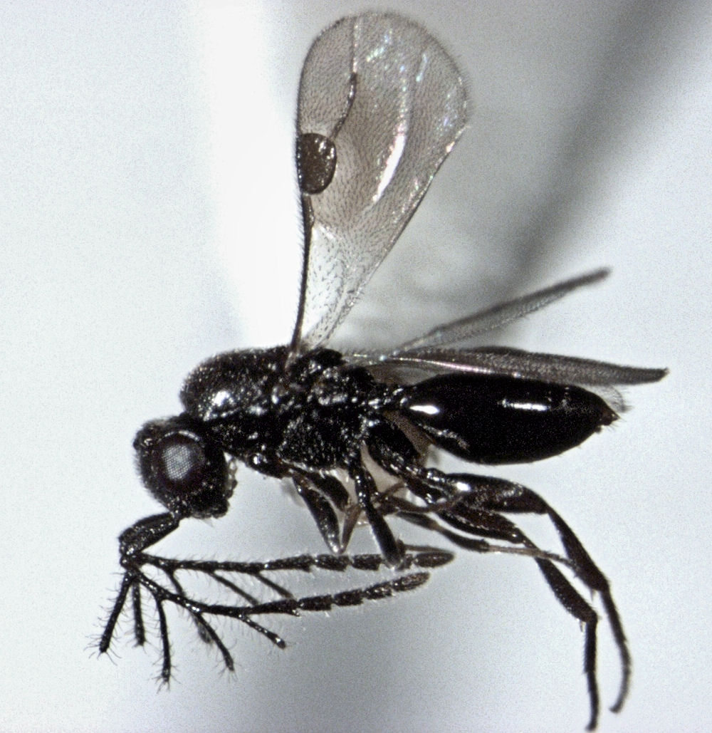 adult male of an indet. Dendrocerus sp.